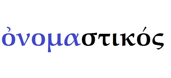 The word "onomastics" in Greek